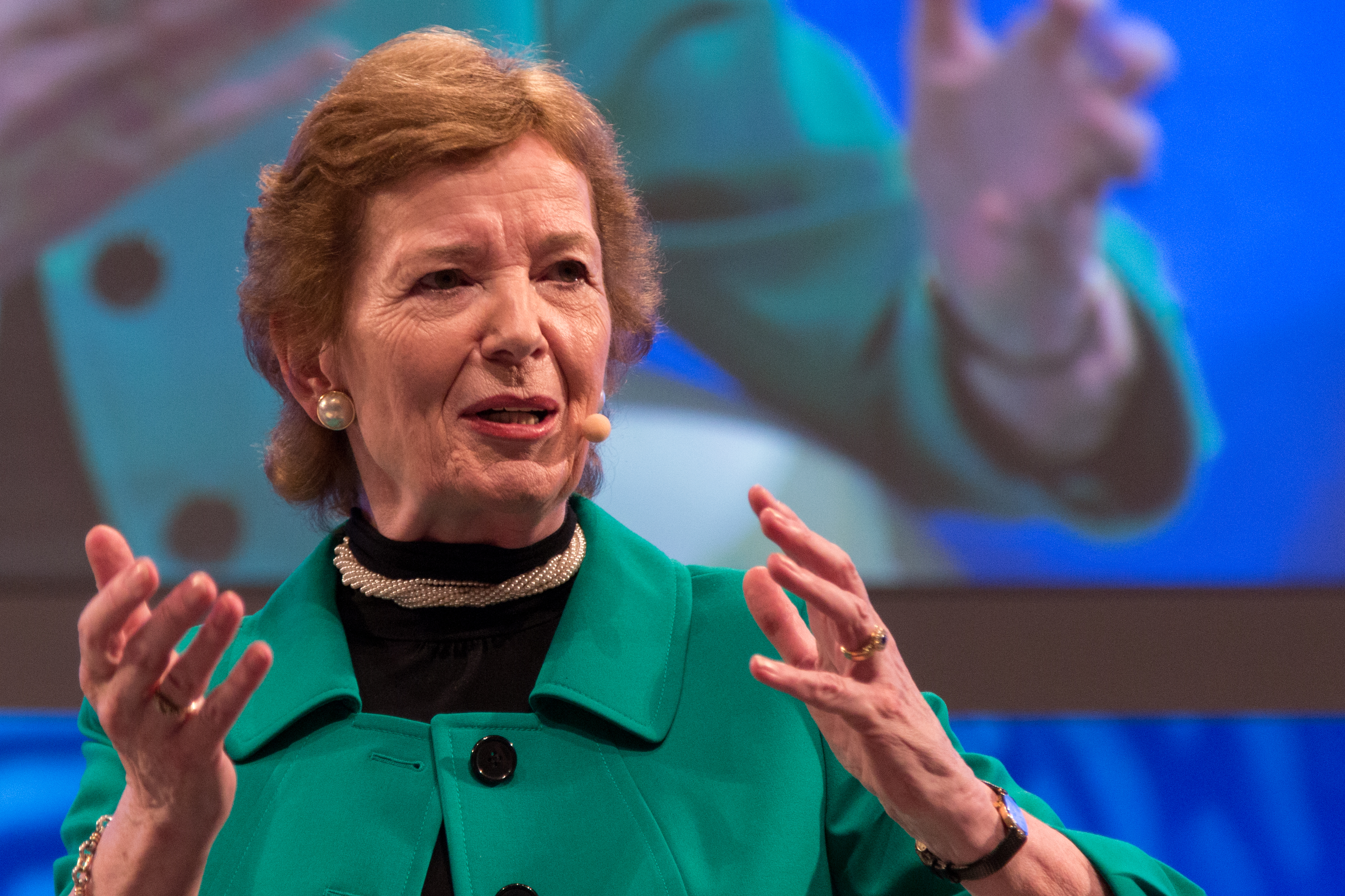 Mary Robinson at the 2014 One Young World Conference in Dublin, Ireland.